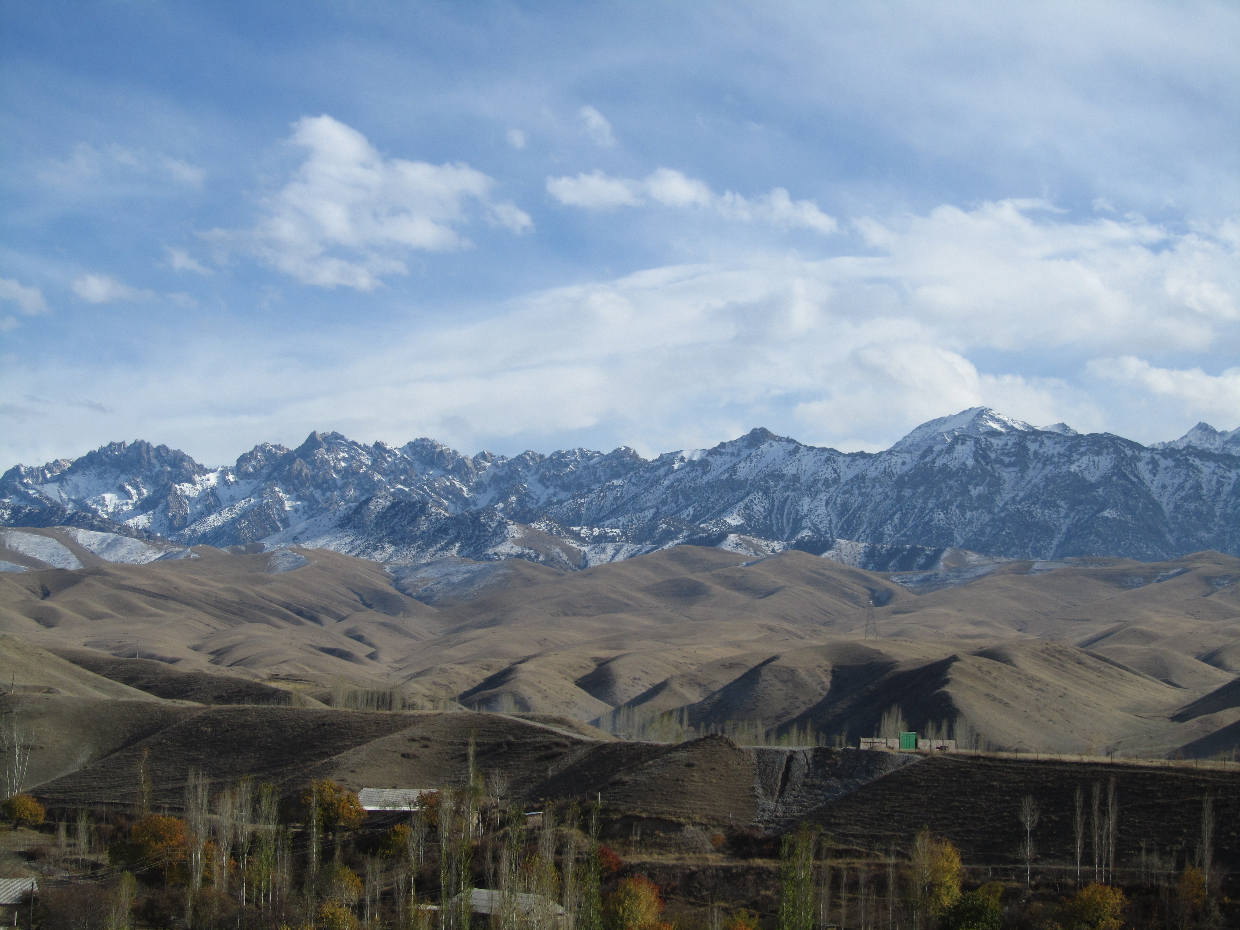 Mountains of the Turkestan Range near the village of Kara-Suu. Leilek District, Kyrgyzstan.